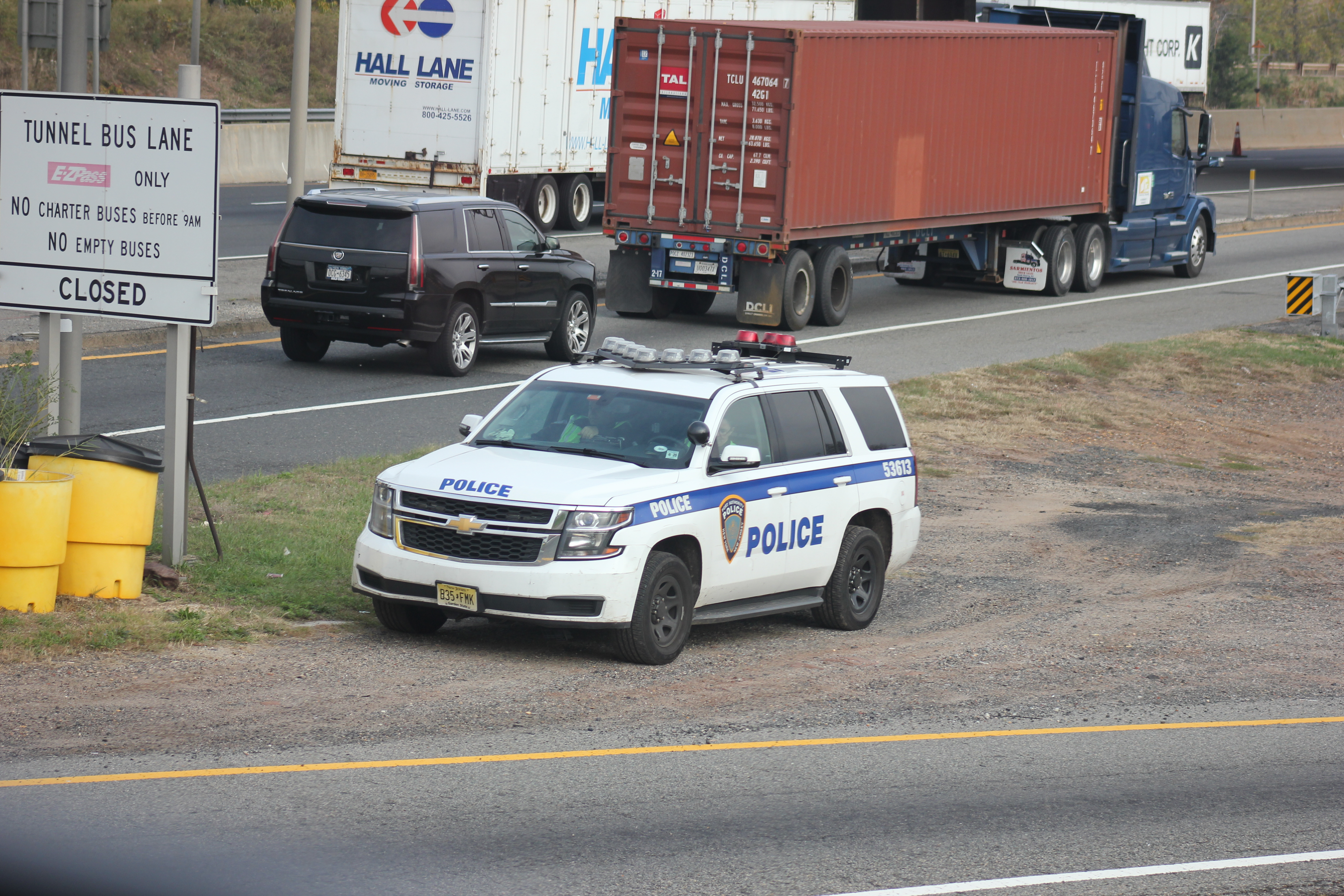 MG_4741 View through upper deck front window of MegaBus Route M21R 0600 New York Bound Bus on New Jersey Turnpike at Lincoln Tunnel Toll Road Exit in Weehawken, New Jersey on Thursday morning, 2 November 2017 by Elvert Barnes Photography